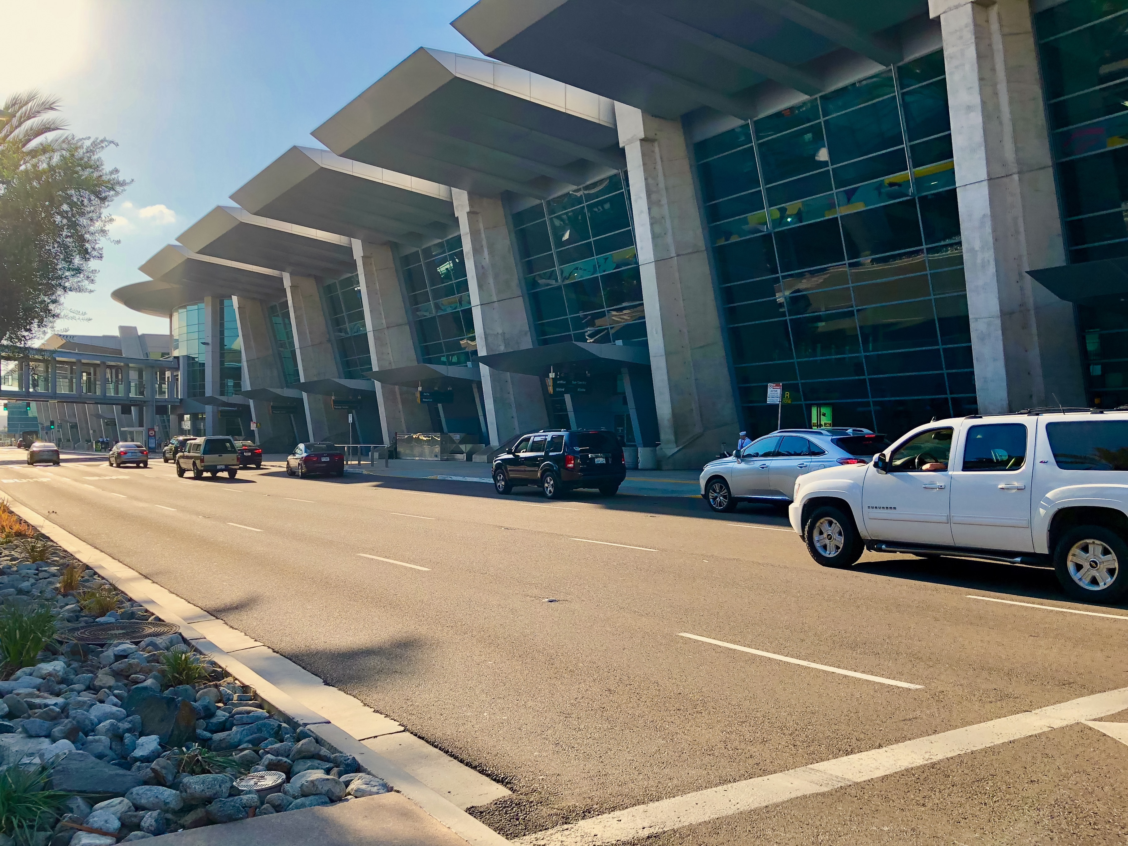 San Diego International Airport (IATA: SAN, ICAO: KSAN) Terminal 2 in San Diego, California. Ground level view of the arrival level looking northwest.